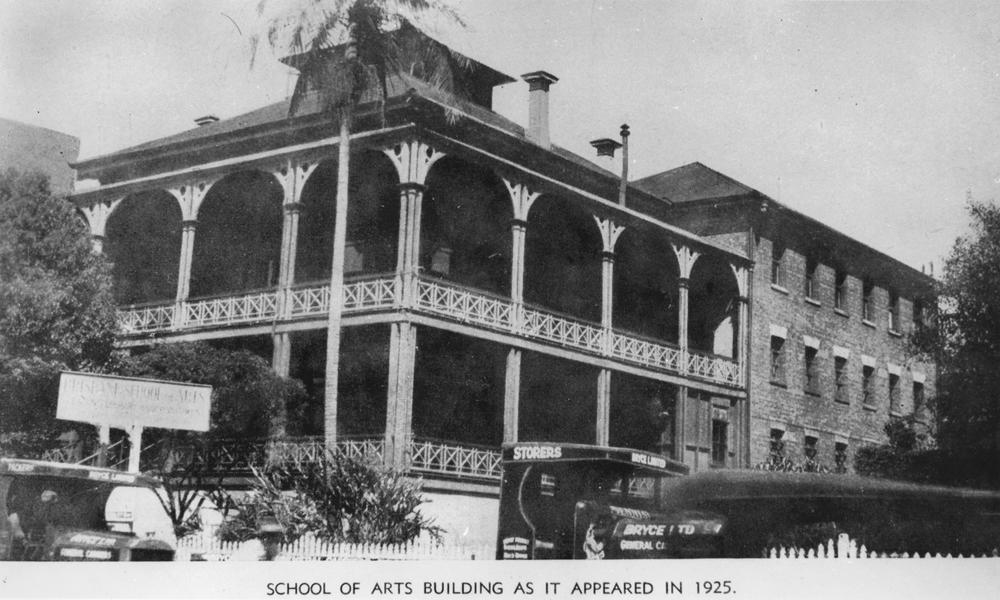 School of Arts building in Brisbane, 1925. The building was originally known as the Servants Home which provided accomodation for single adult females who had migrated to Queensland and were awaiting employment as domestic servants. The building, located in Ann Street, was later converted to a school of arts.